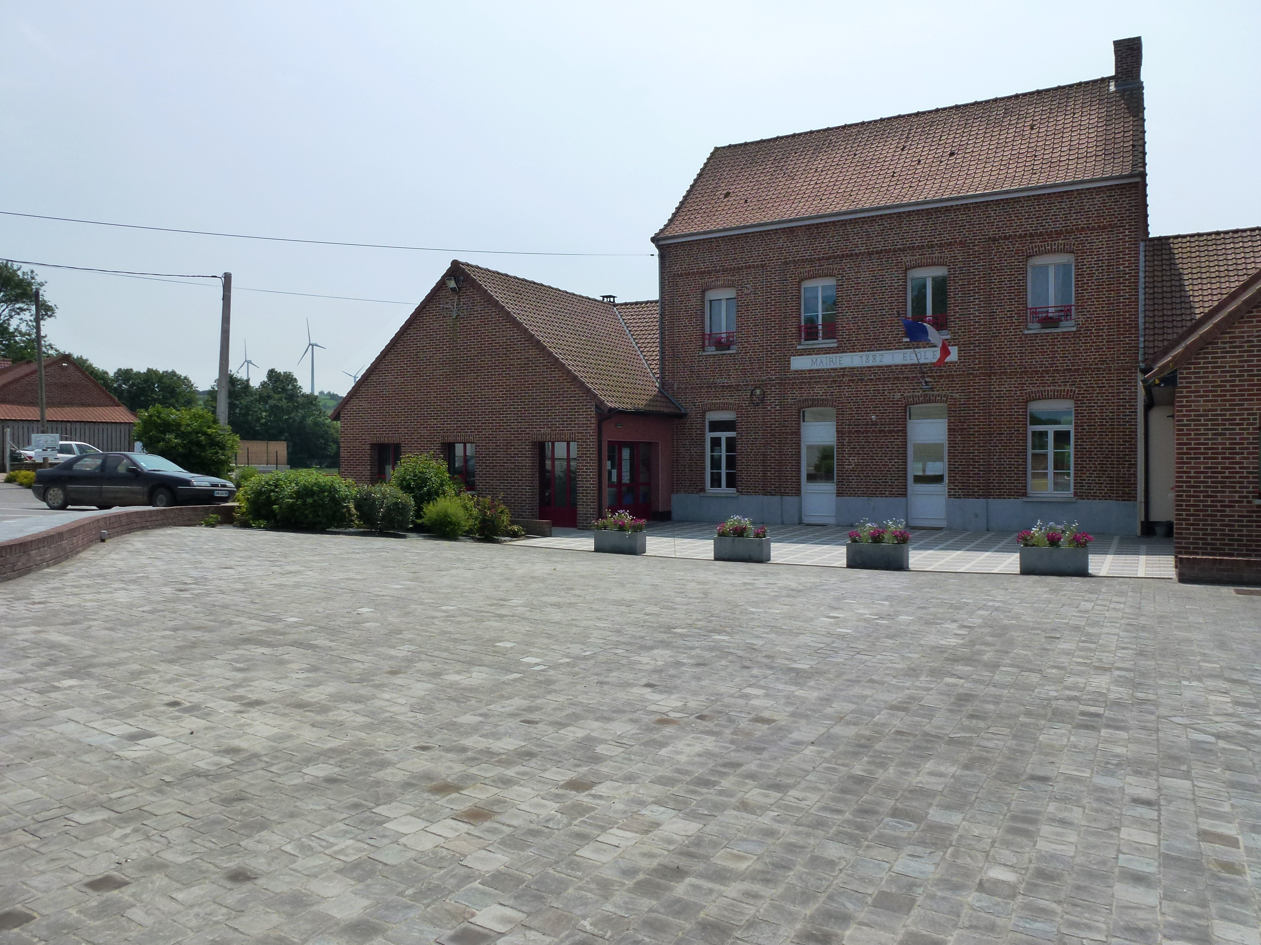 Reclinghem (Pas-de-Calais, Fr) mairie et école, éoliennes